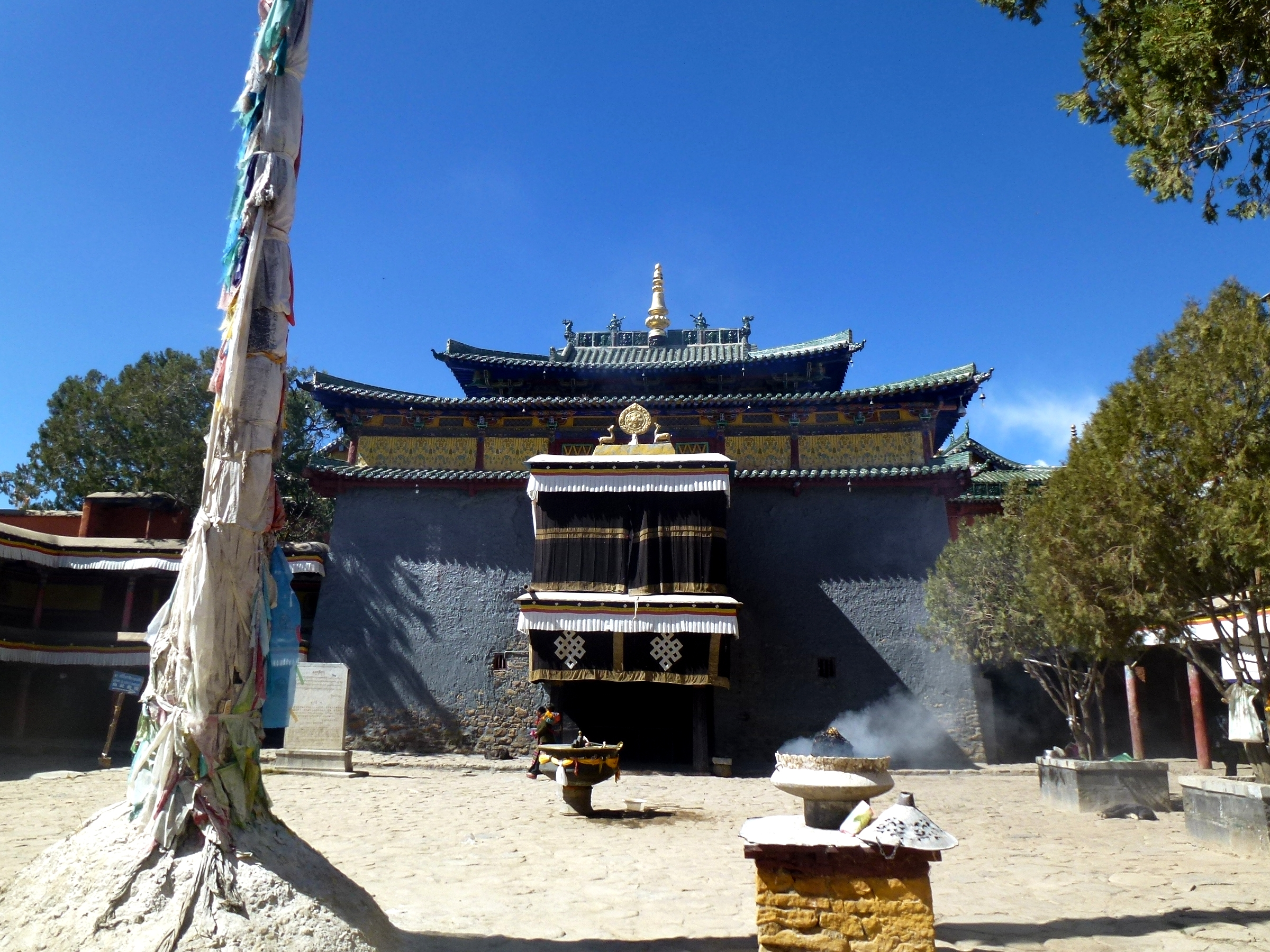 Shalu Monastery Shigatse Tibet China 西藏 日喀则 夏鲁寺